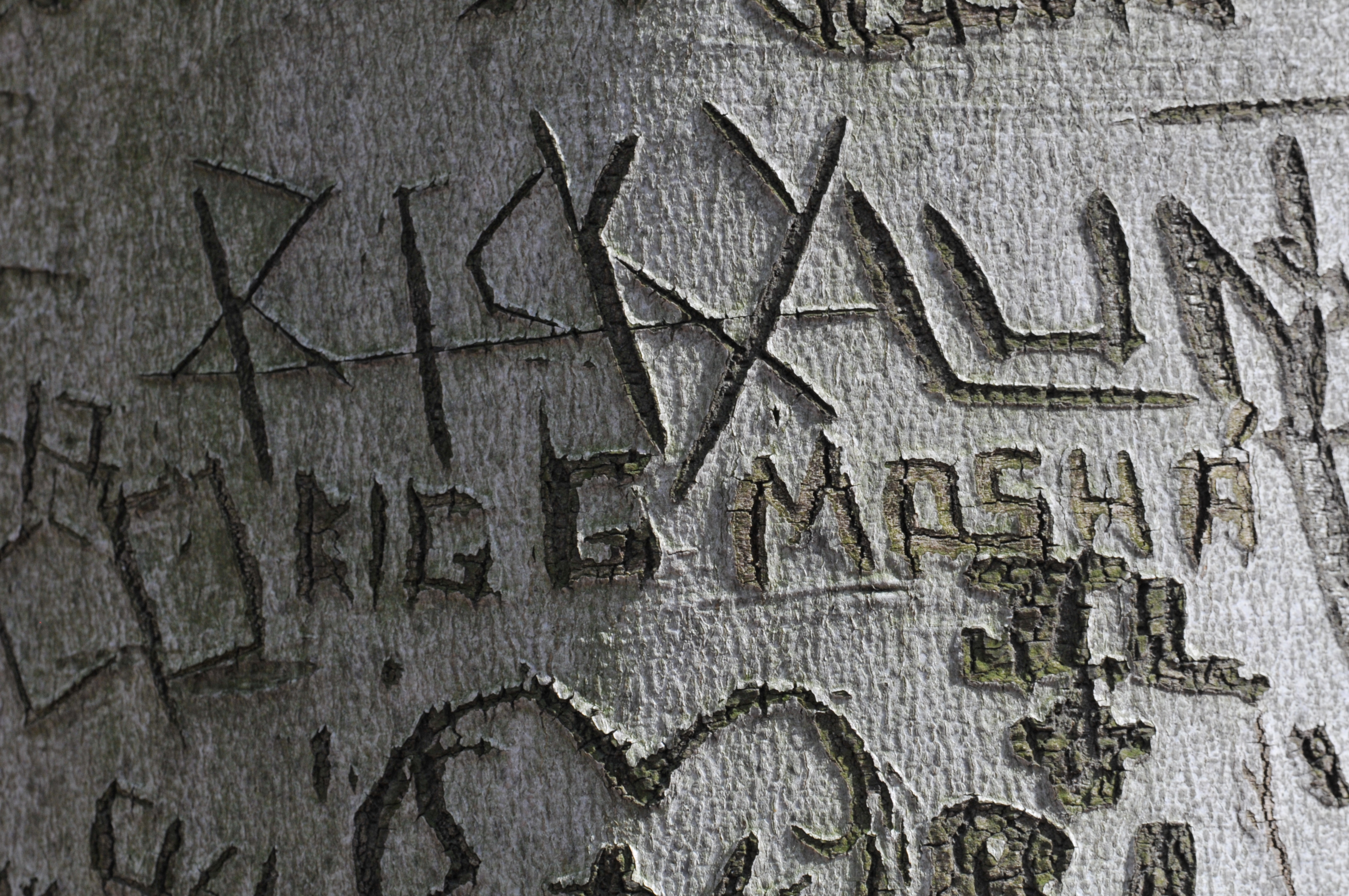 An American beech tree (Fagus grandifolia) in the Native Flora Garden at the Brooklyn Botanic Garden with badly scarred bark